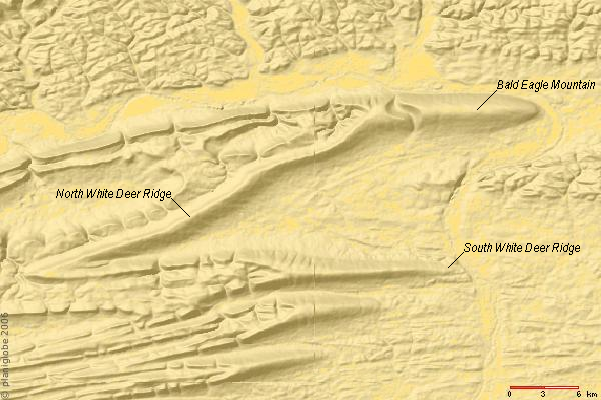 Map of White Deer Hole Creek Watershed in Lycoming County, Pennsylvania, United States